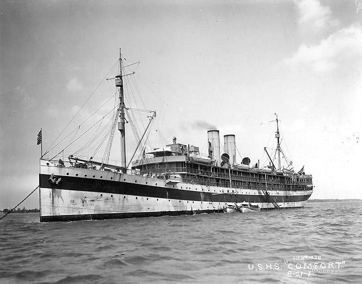 Photo #: NH 61539 USS Comfort (hospital ship, later AH-3) At anchor, circa 1919.